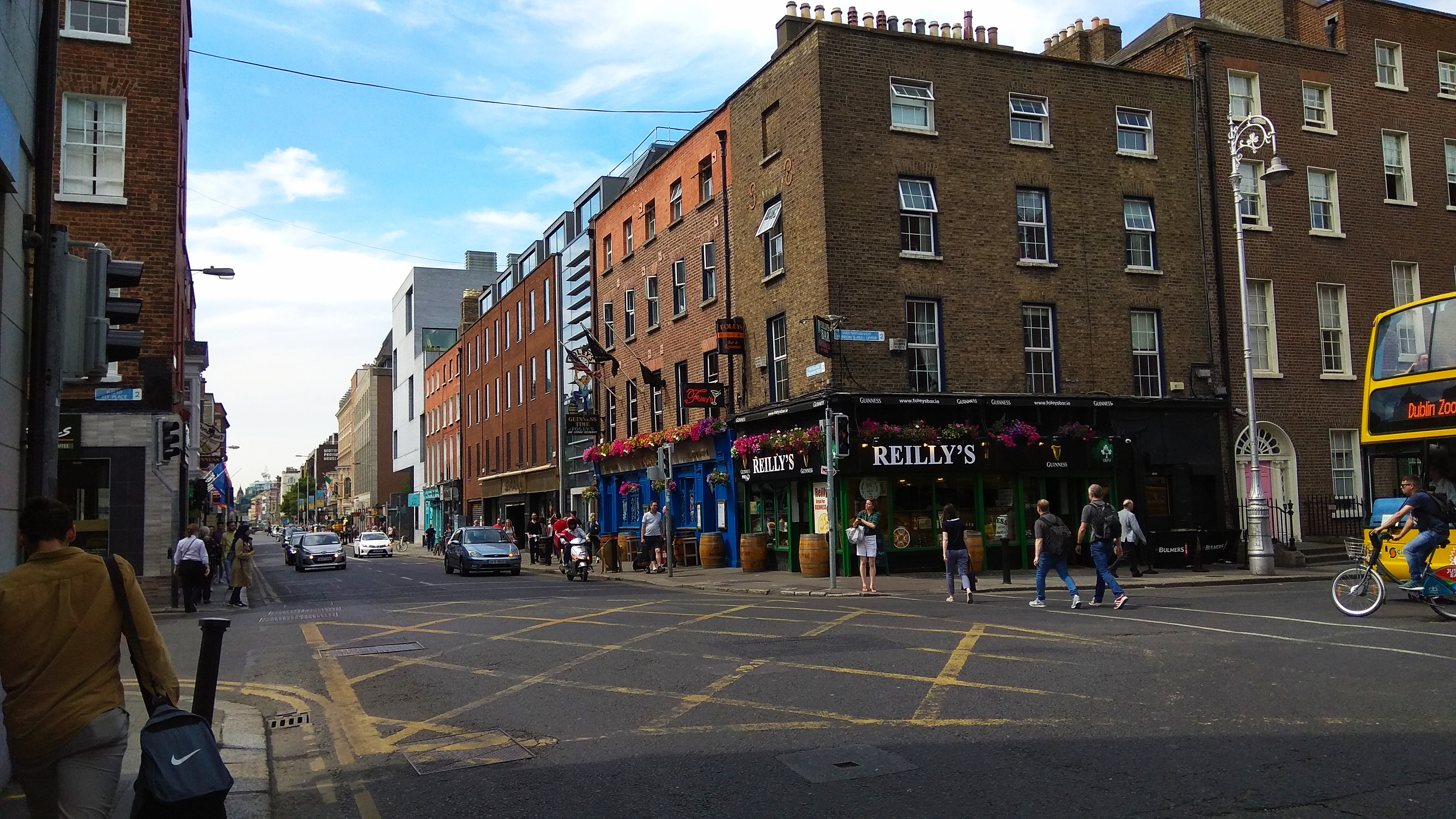 Merrion Street, Dublin